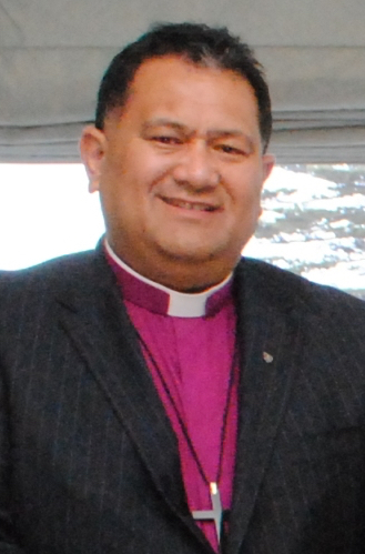 Te Kitohi Wiremu Pikaahu at Government House, Auckland, on 31 August 2012.